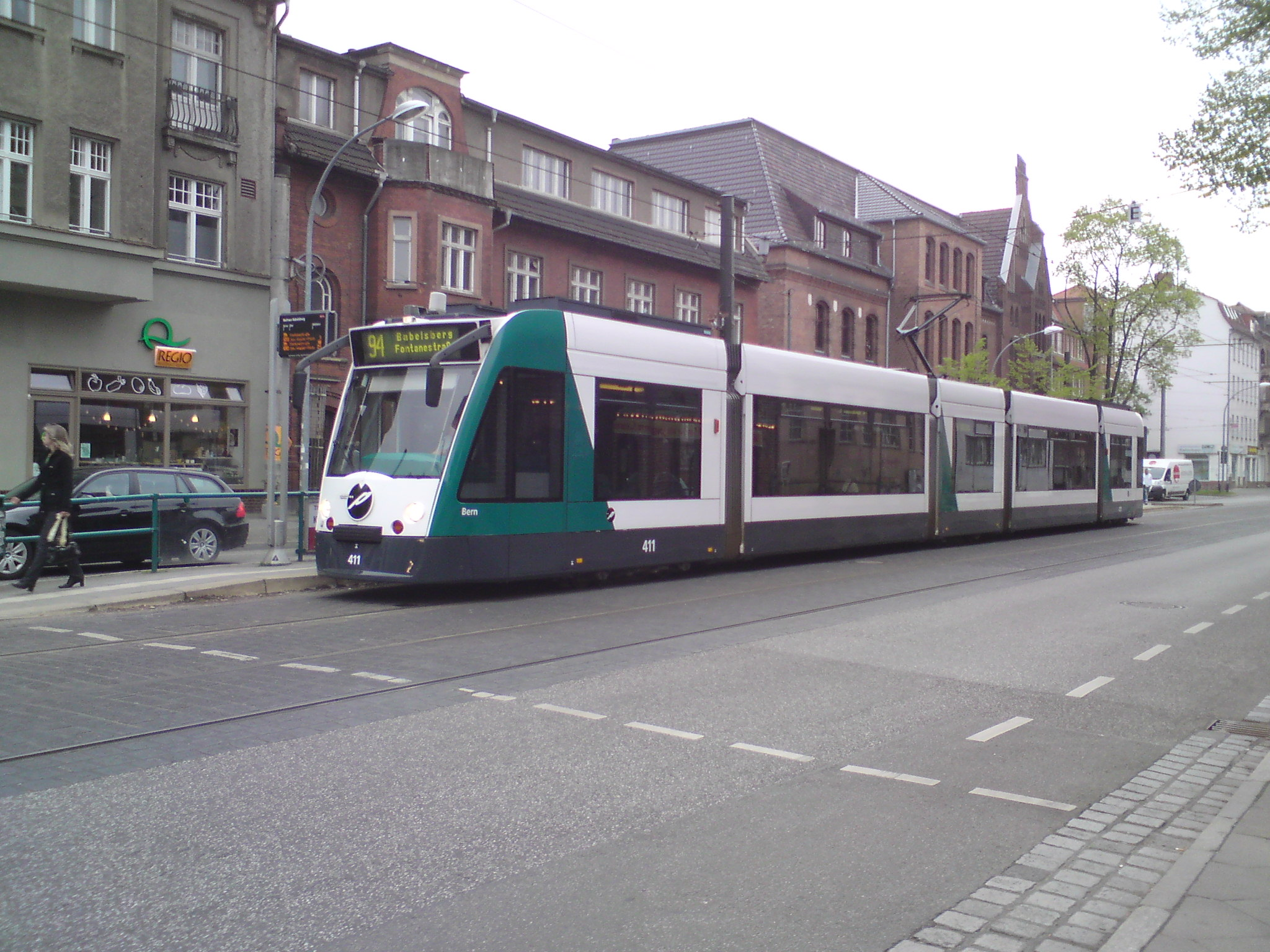 Potsdams Combino No. 411 have just approached the station at Babelsberg Townhall station on April 18th 2009. The brick building in right background is the former town hall of Neuendorf (not the one of Babelsberg).